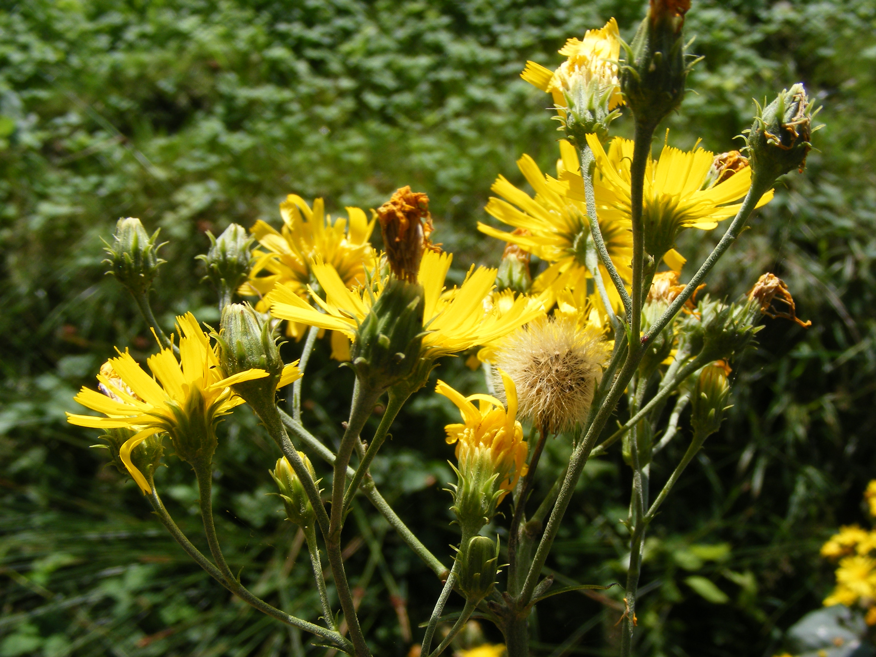 This photo shows Hieracium umbellatum